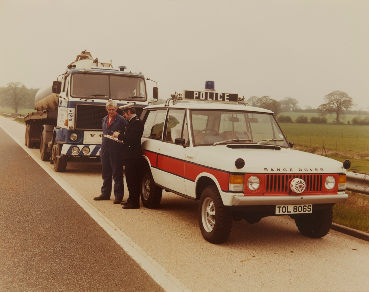 Another great archived image showing one of our old 4 x 4 Traffic vehicles on motorway patrol in the 1970s/80s. If you recognise the officer or have any idea of the date of this photograph, please get in touch.